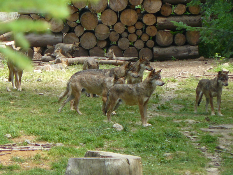 Wolf pack, with some curbs in Alpha Park, Saint-Martin-Vésubie, Alpes-Maritimes, France.